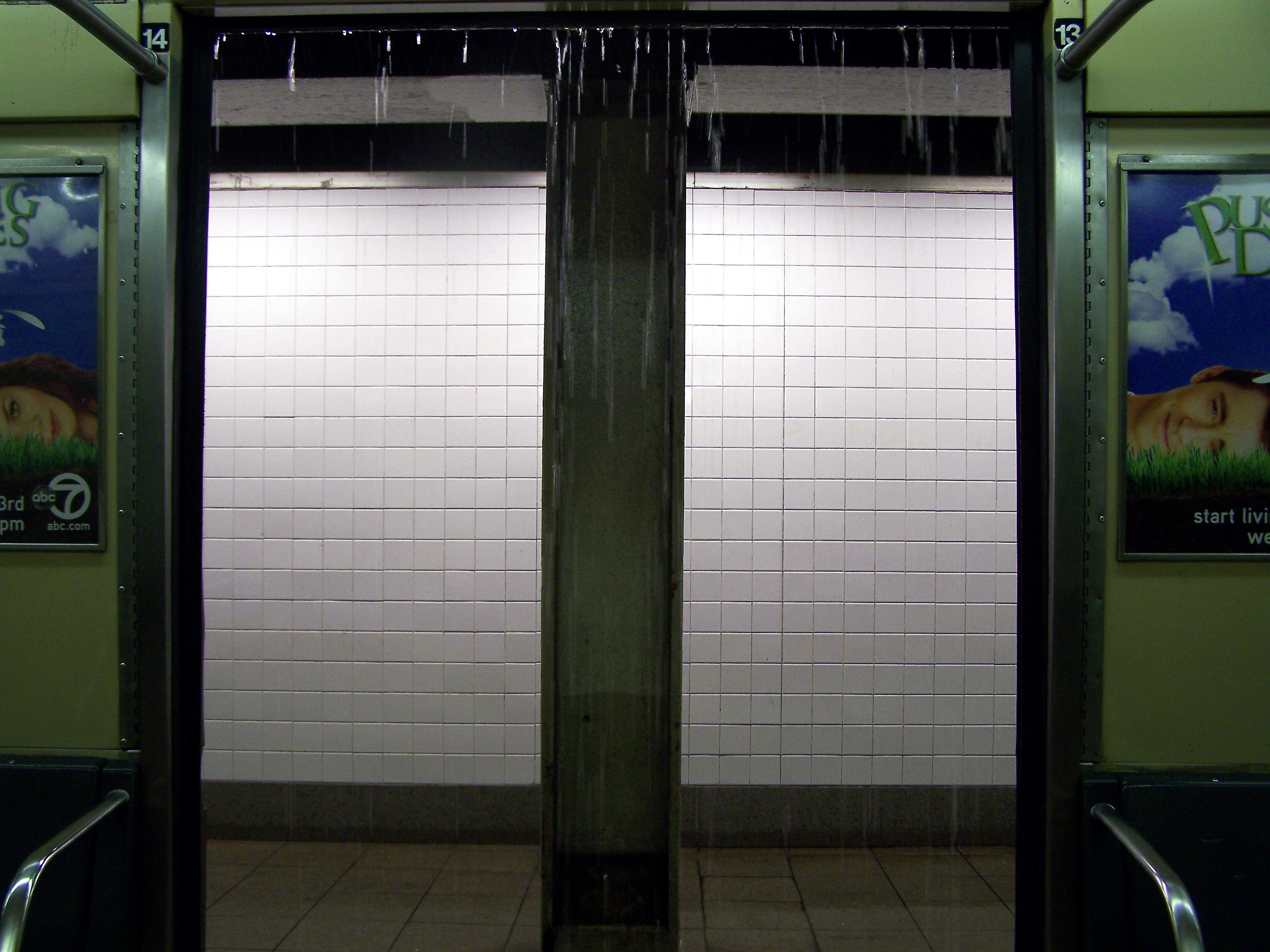 Rain from drainage pipes comes into a subway car